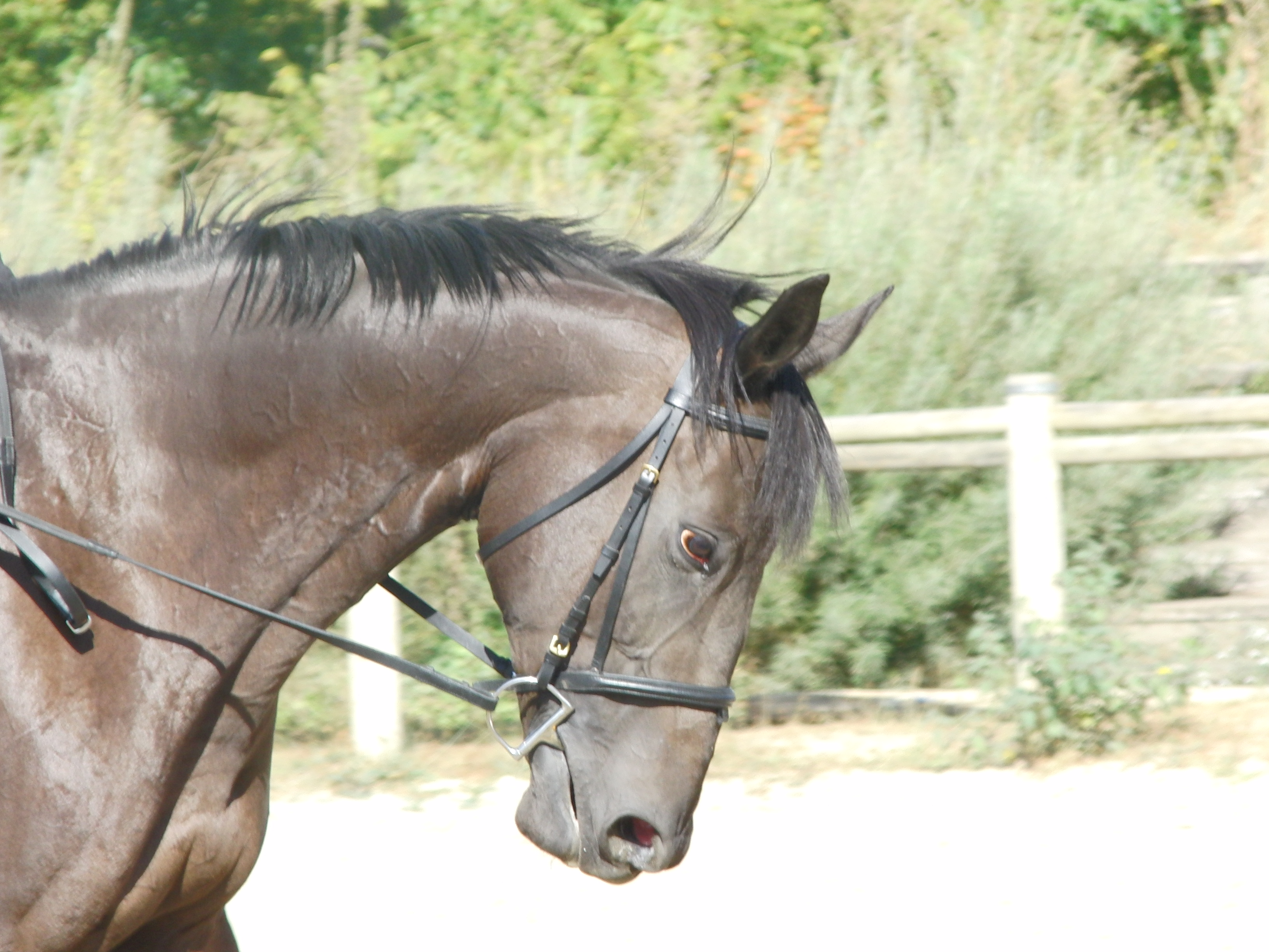 Selle français mare born in 1999, retired of AQPS races, France